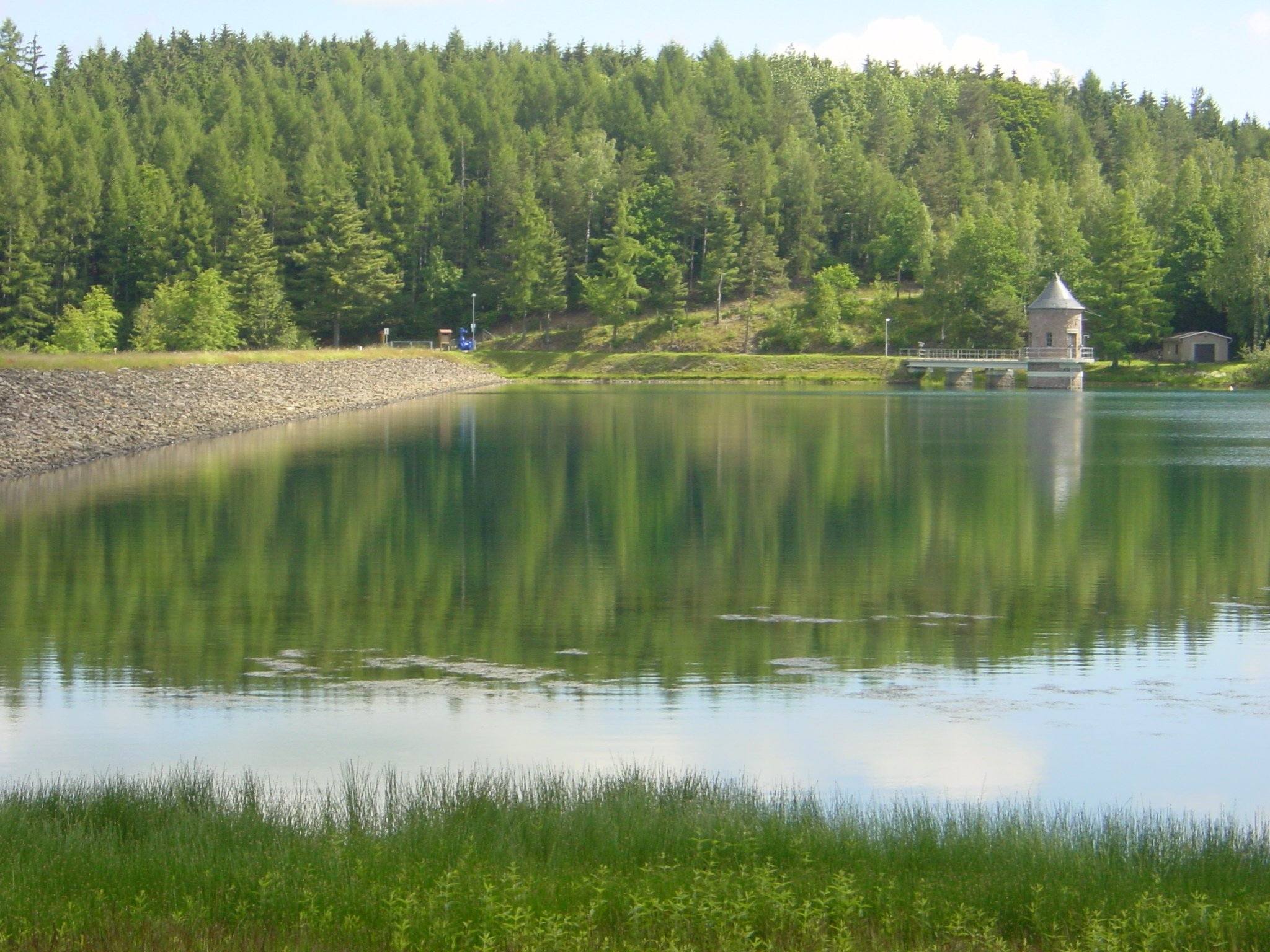 Stollberg dam and reservoir, Saxony, Germany